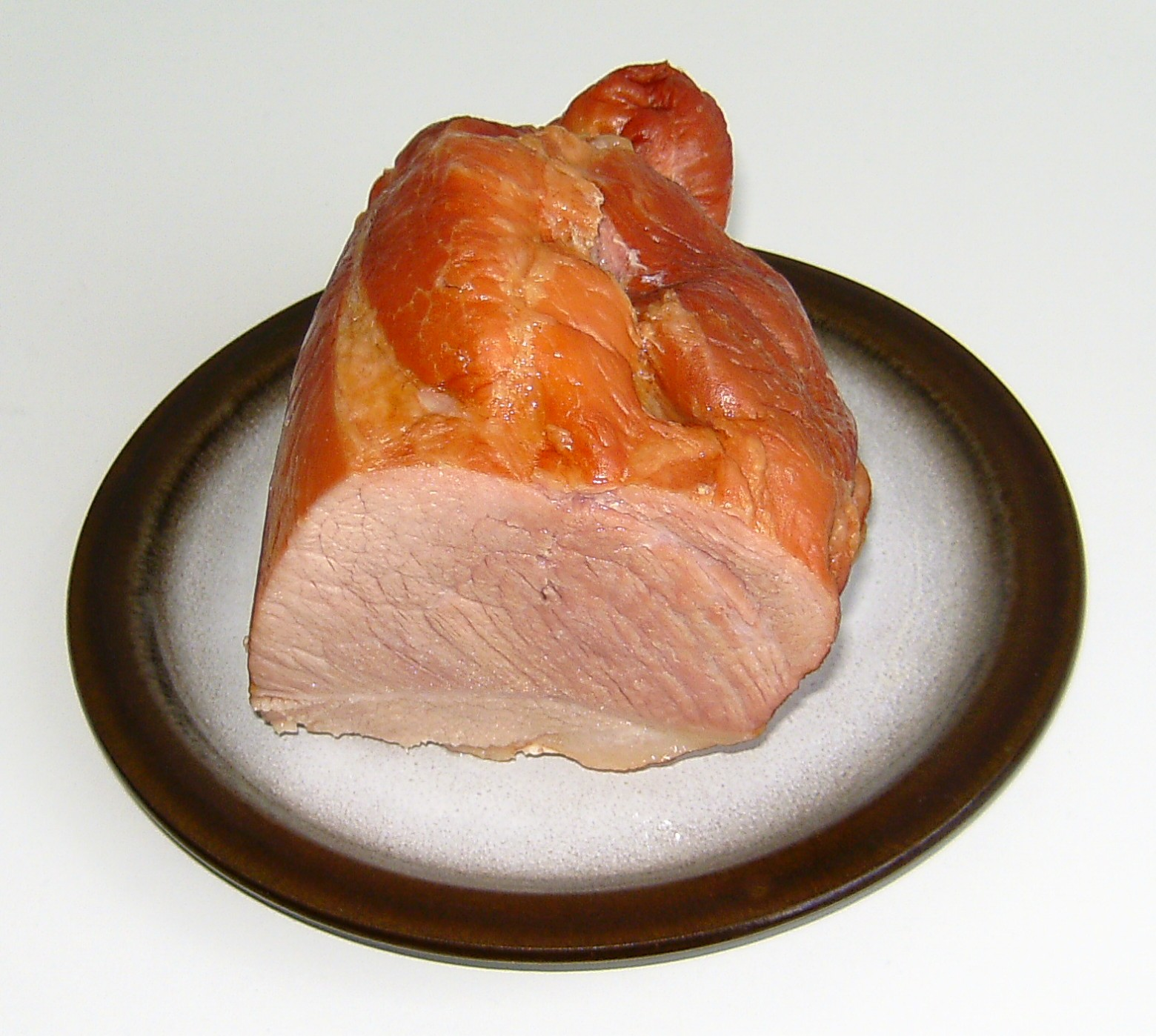 "Schäufele" from Black Forest (Schwarzwald) Baden, Germany. Pork meat like Kassler